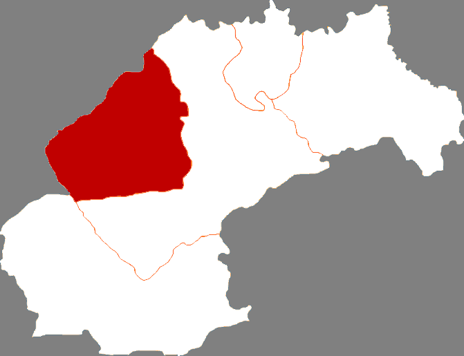 Location of Qian'an county in Songyuan City, China